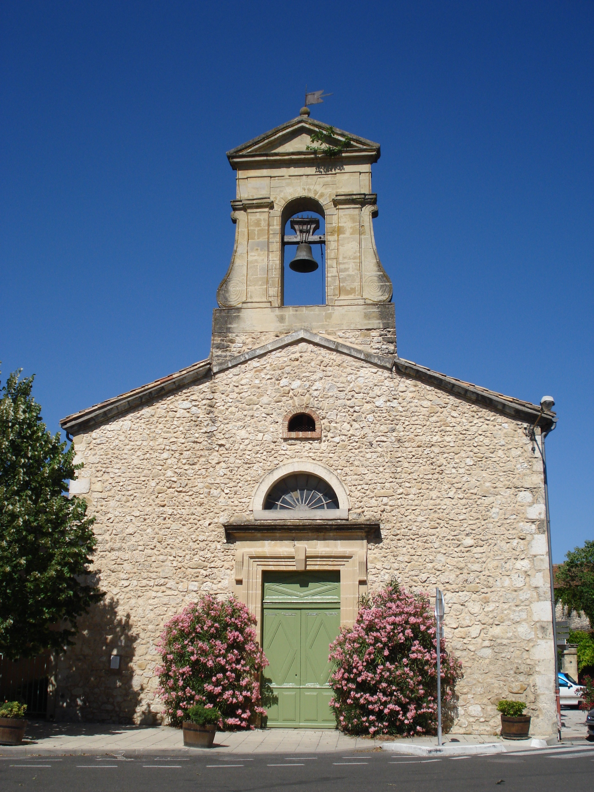 The protestant church (temple) of Saint-Chaptes (Gard, Fr).